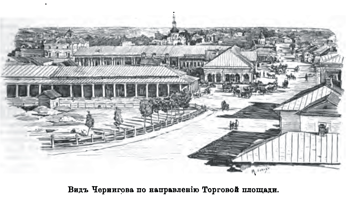 View of Chernigov